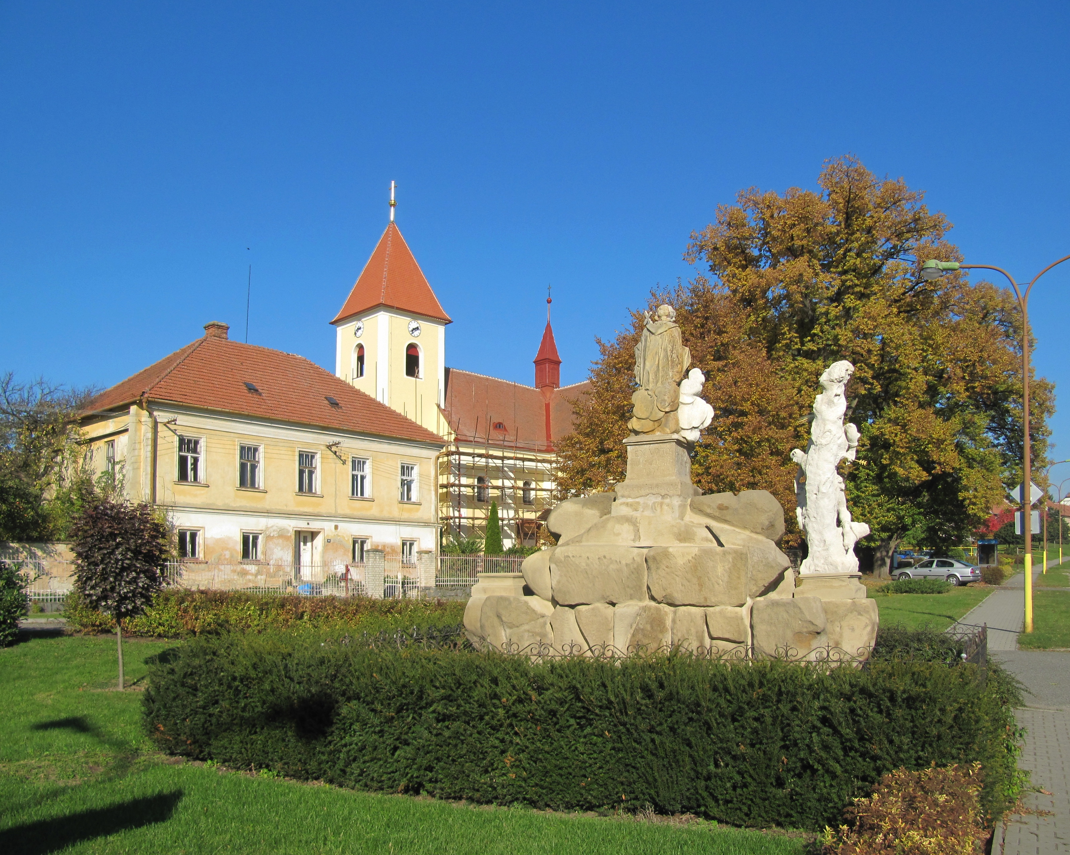 Chvalkovice in Vyškov District, Czech Republic. Village square with a sculpture of St. John of Nepomuk, the rectory and the Church of St. Bartholomew.